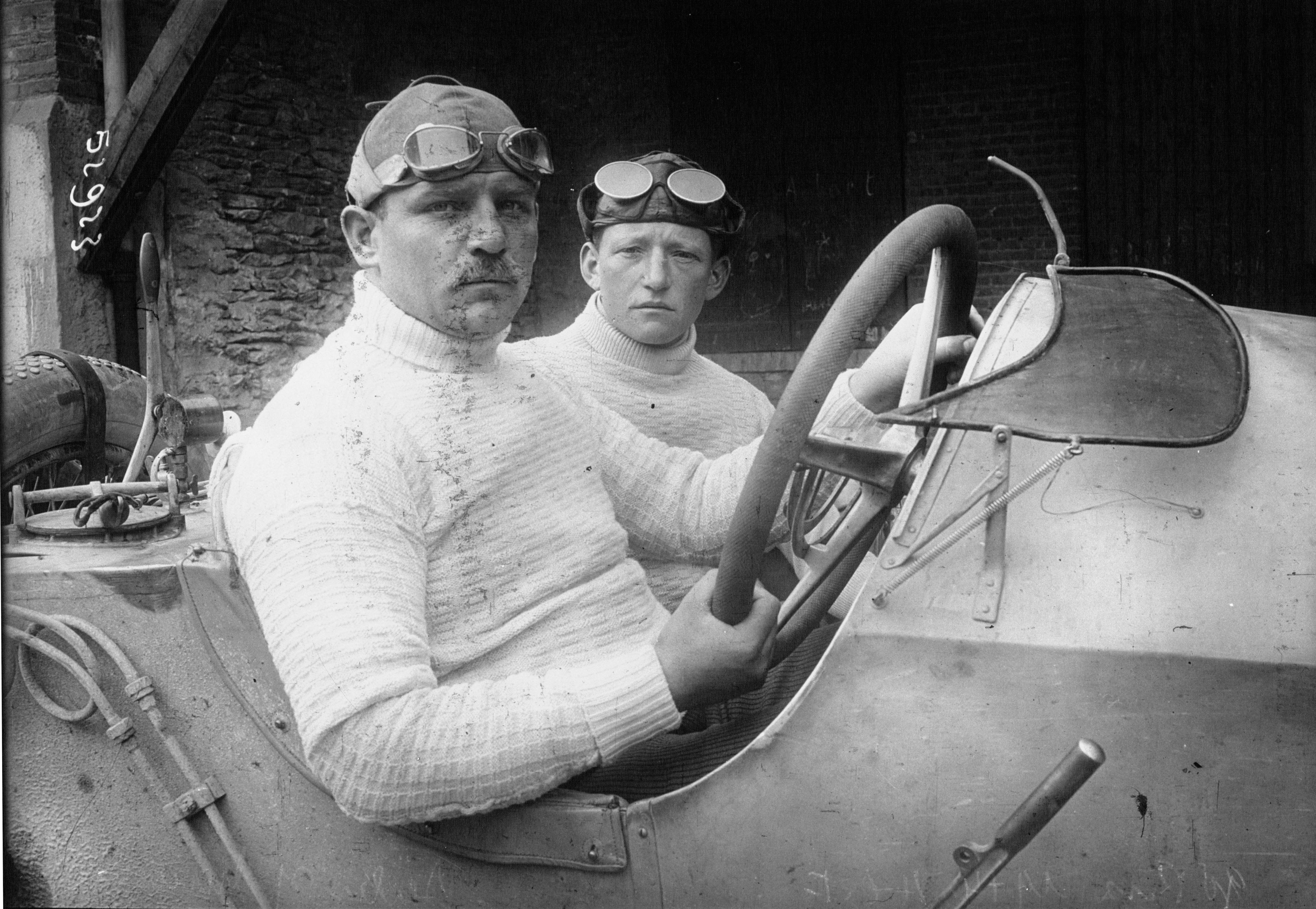 Max Sailer at the 1914 French Grand Prix